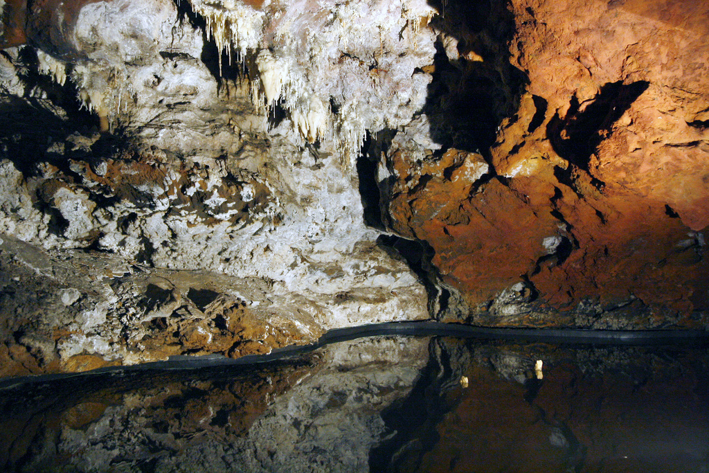 El Soplao cave. Herrerías, Cantabria (Spain).